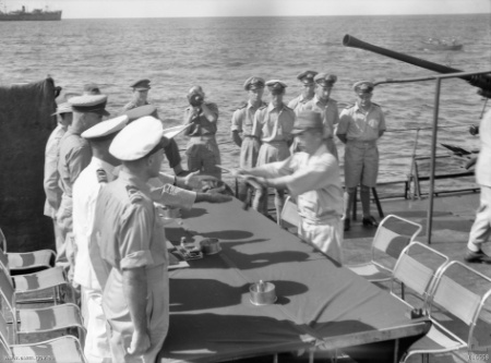 Surrender of the japanese forces of Nauru the 13th of september 1945 on board of the HMAS Diamantina, The japanese commander Hisayuki Soeda hand his sword to J. R. Stevenson the australian commander